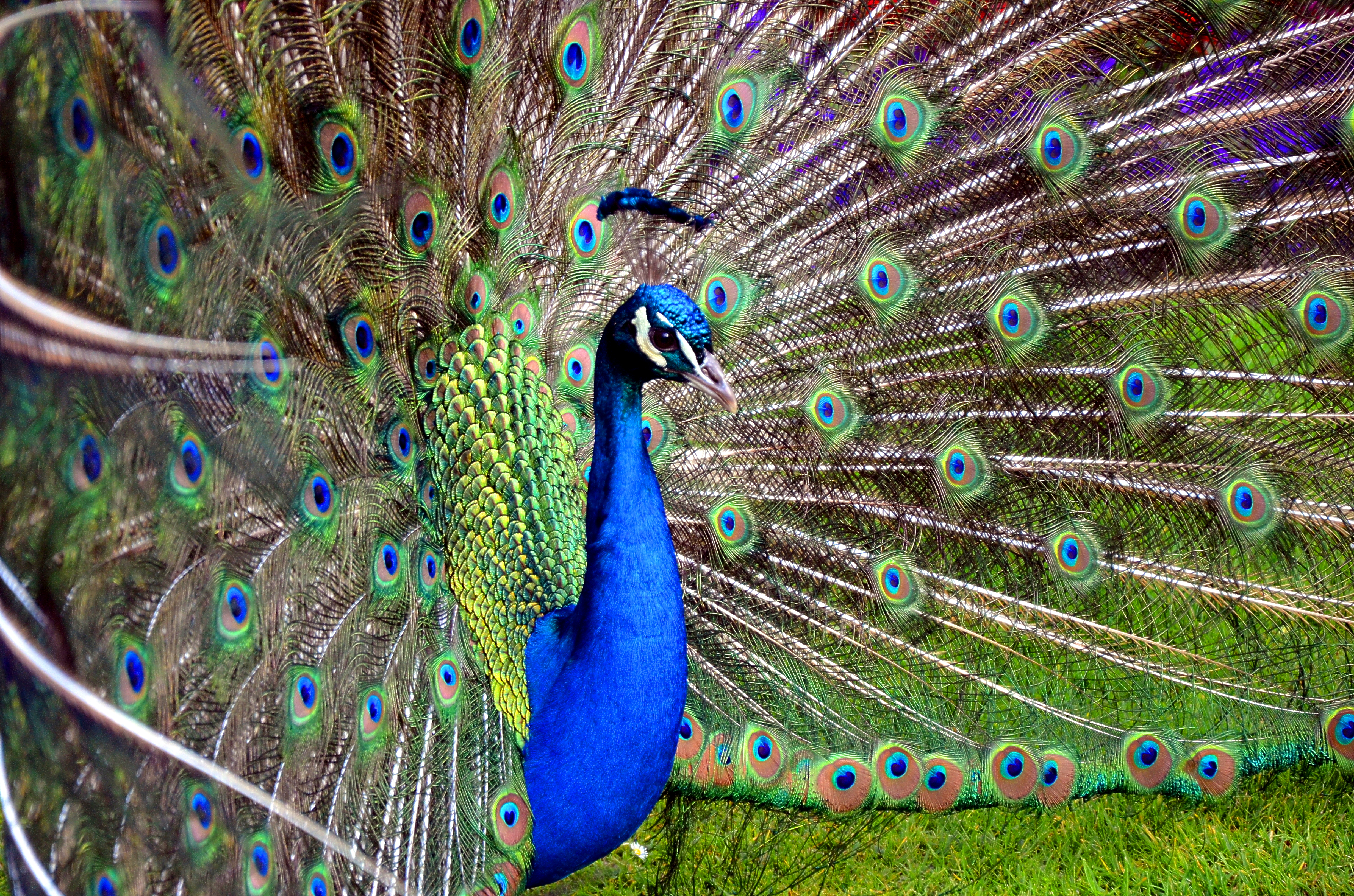 Peacock